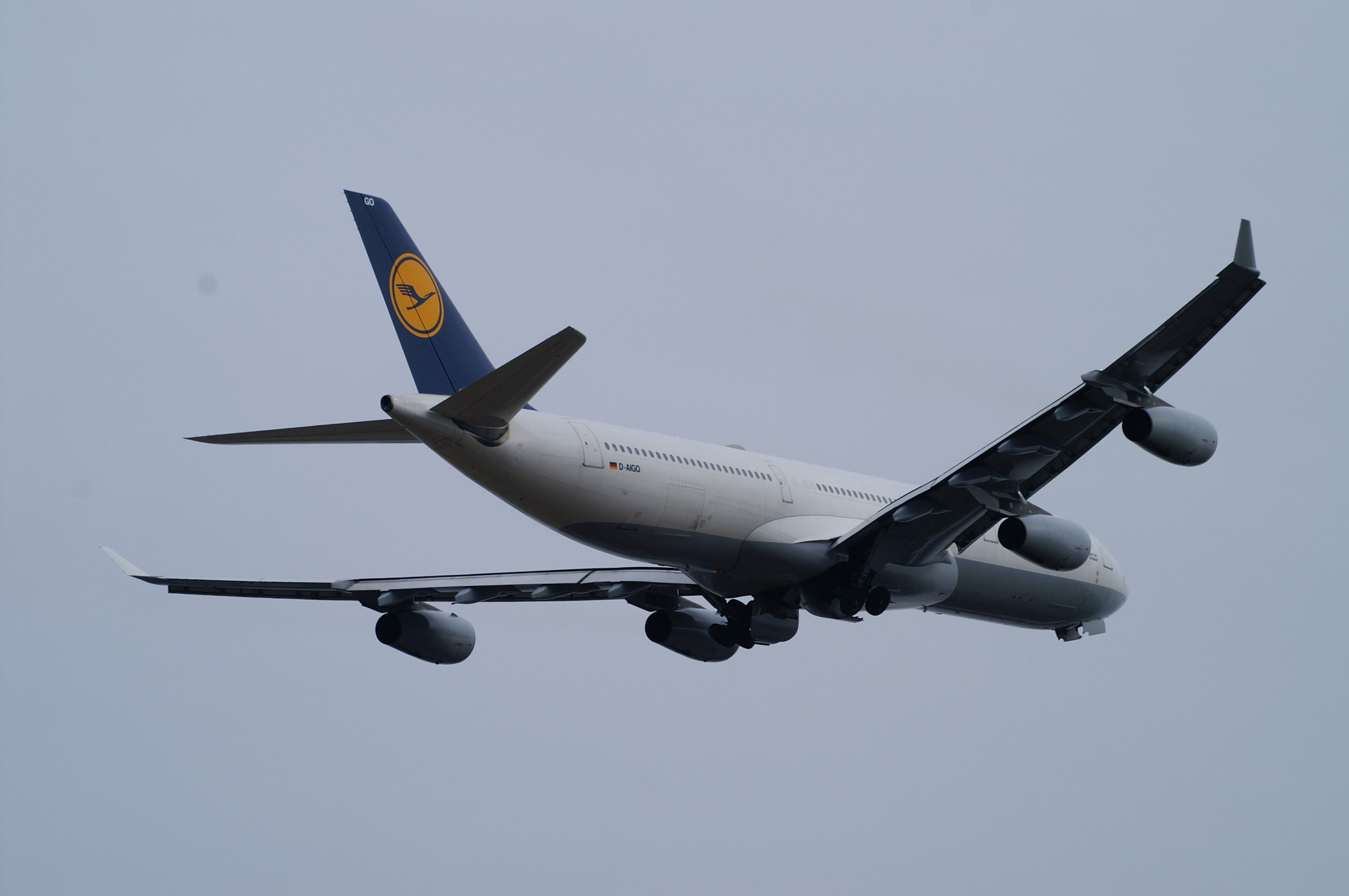 Lufthansa Airbus A340-313X (D-AIGO) started from Narita International Airport, Chiba, Japan. (2007/01/28 Narita International Airport, Chiba, JAPAN)